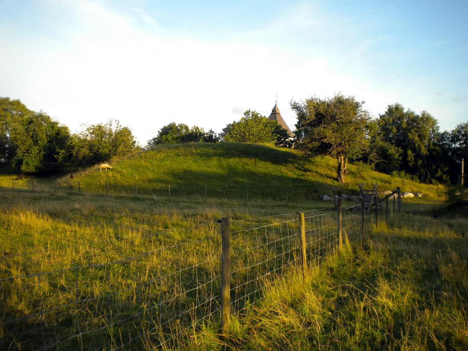 The west and largest royal tumulus at Hovgården (Court Estate) which historian Åke Ohlmarks assumed to be the grave of a 9th century king Eric (son of a Beorn?), Adelsö Church behind, as released by image creator RistessonPlace: Lake Mälar island of Adelsö (Nobilty Island) in Ekerö, Sweden